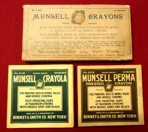 Original Munsell crayons both prior to and after Crayola purchasing the rights to use their crayon colors.